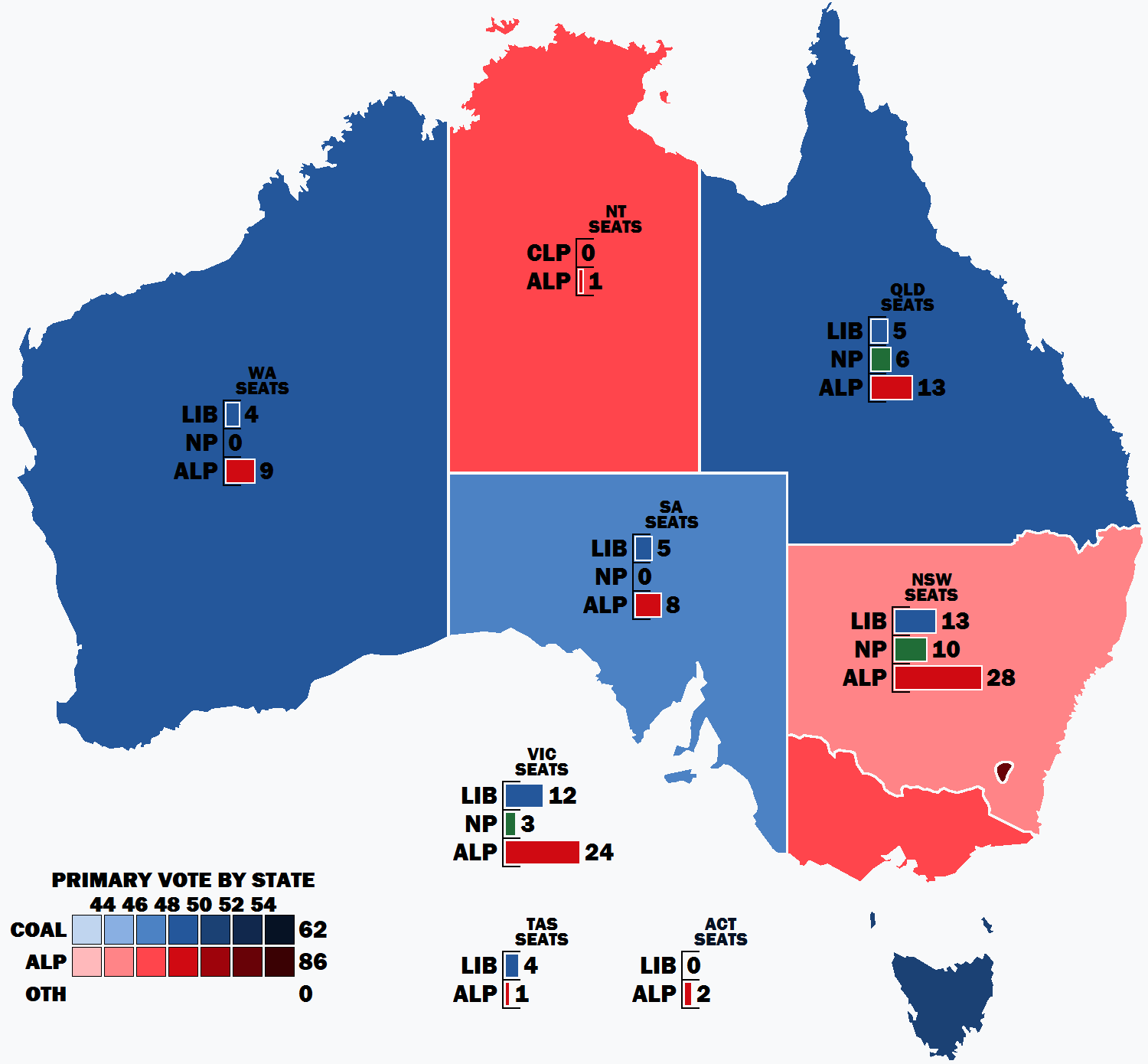 Result of the primary vote by state and territory in the 1987 Australian federal election.